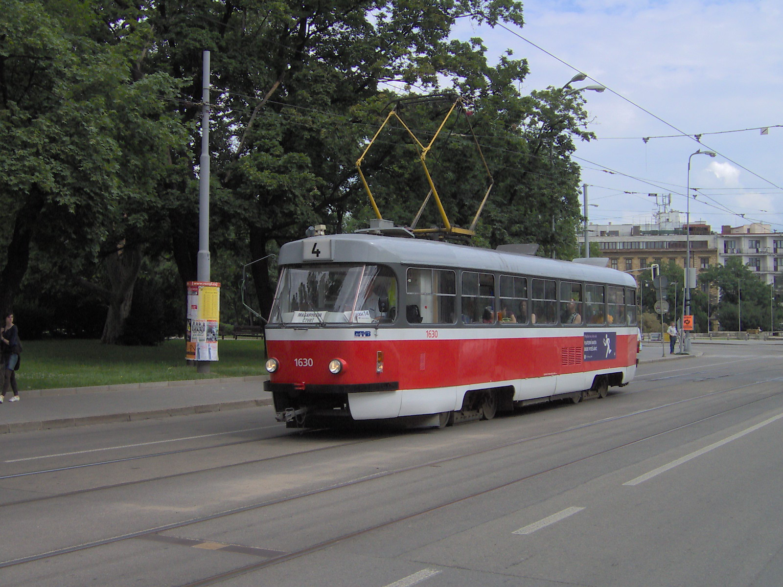 Tatra T3M.3 (T3T) tram in Brno